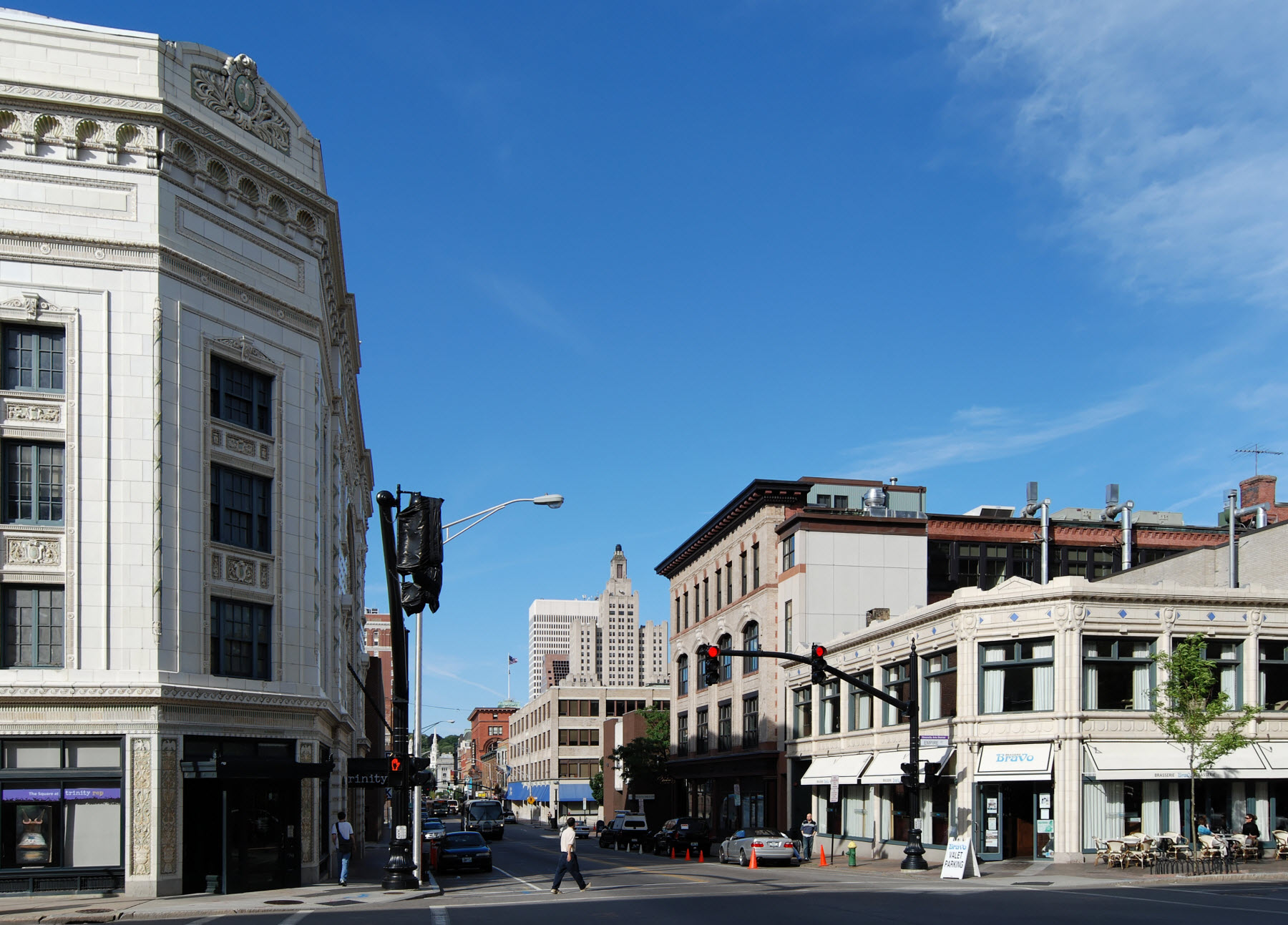 Downtown Providence, Rhode Island (Downcity), corner of Washington and Empire Streets. Trinity Repertory Company at left.